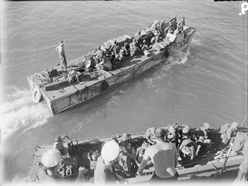 The Royal Navy during the Second World War Indian troops embarking from the cruiser HMS KENYA in a landing craft assault (LCA 346) to take over from the Royal Marines, South of Ramree, Burma. Royal Marines of the East Indies Fleet made a successful landing on Cheduba Island under protection of a bombardment by cruisers and destroyers and air cover provided by the Fleet Air Arm.